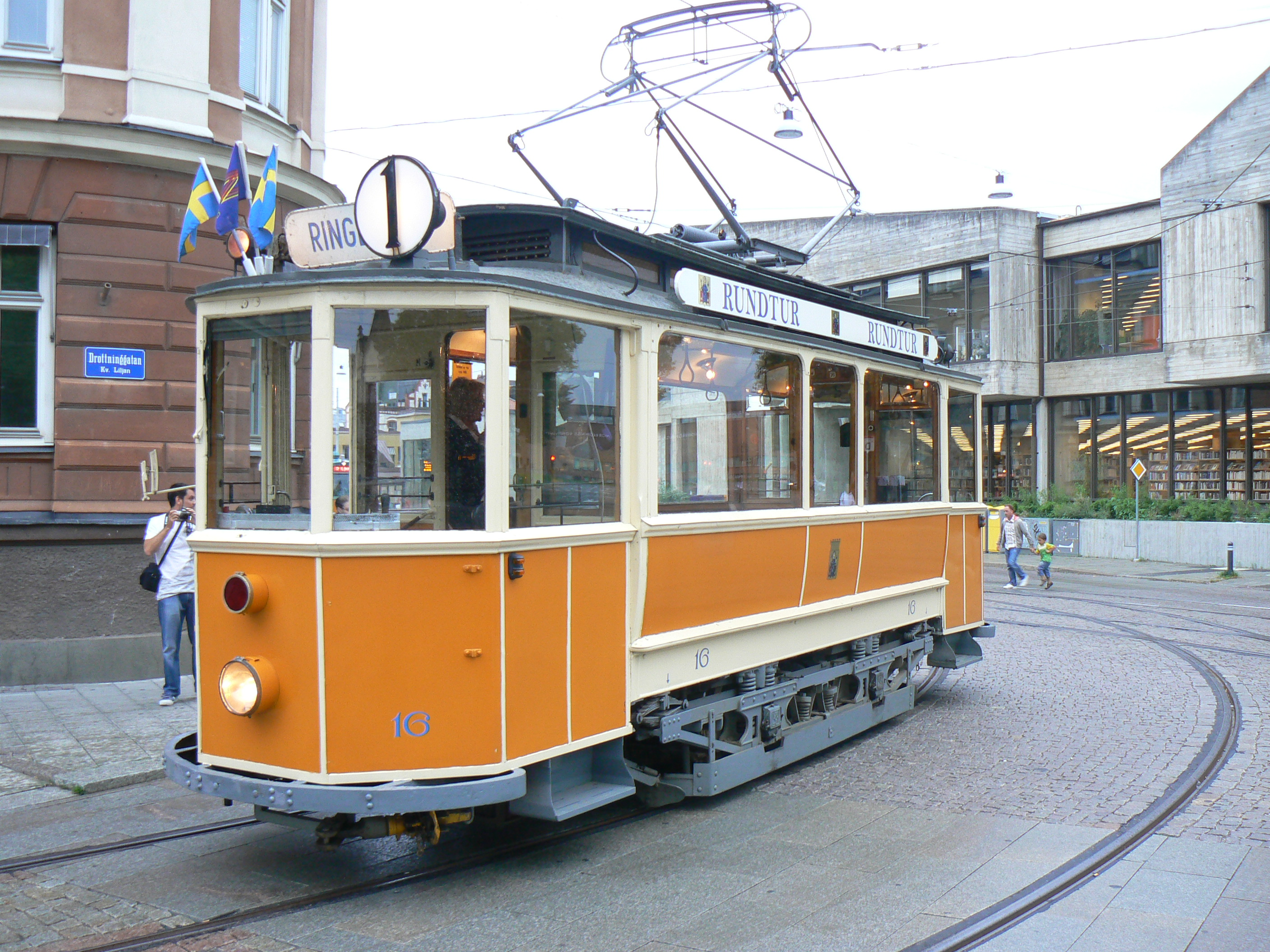 Old tram (buidt 1902) used for tourist trips in Norrköping, Sweden.